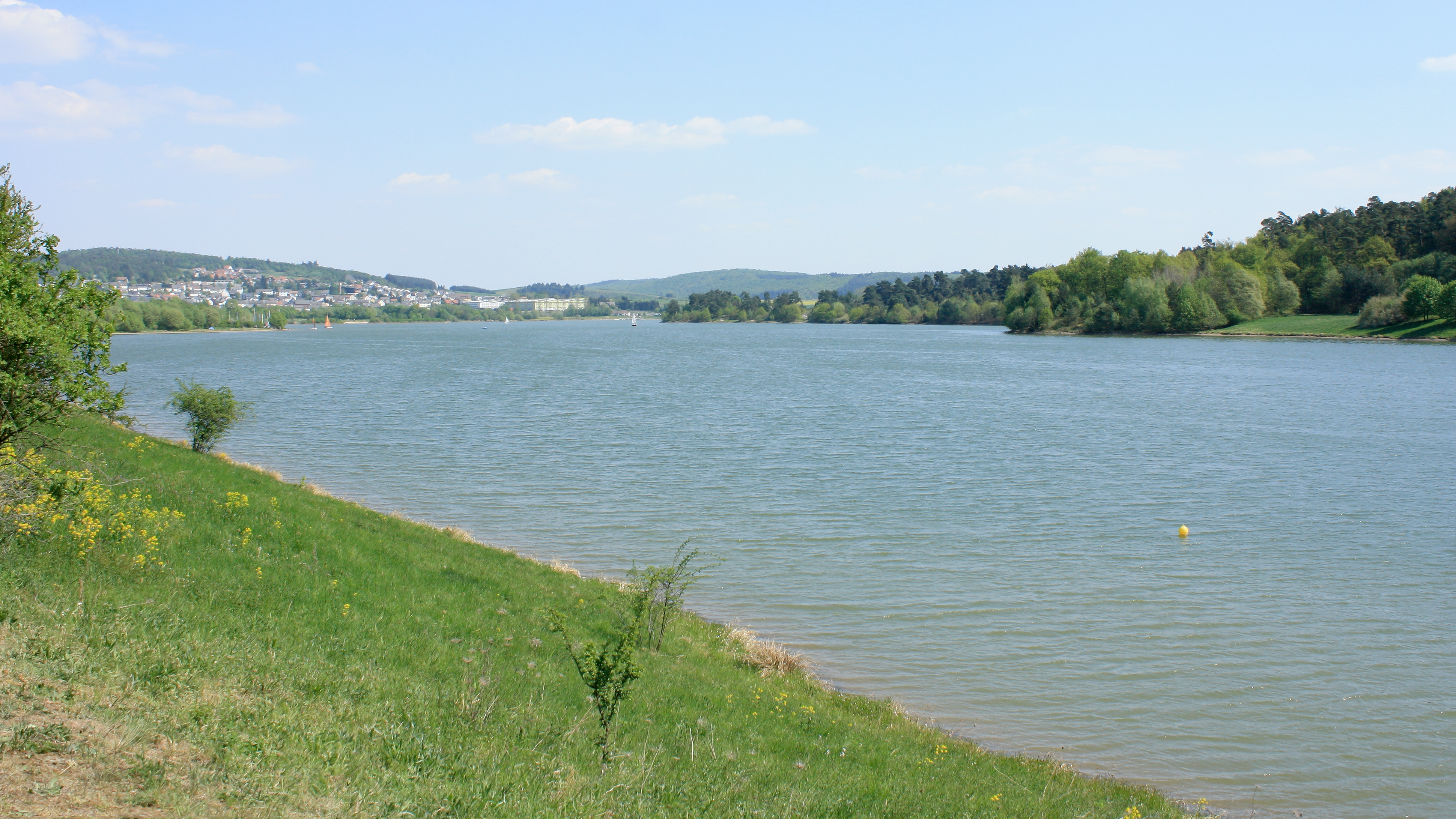 Aartalsee reservoir, view from the north shore